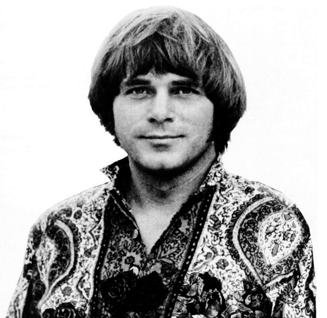 Trade ad for Joe South's single "Rose Garden". To better adapt it to his respective Wikipedia article, the ad was cropped and cleaned in a graphics editing program. The original can be viewed at the source below.